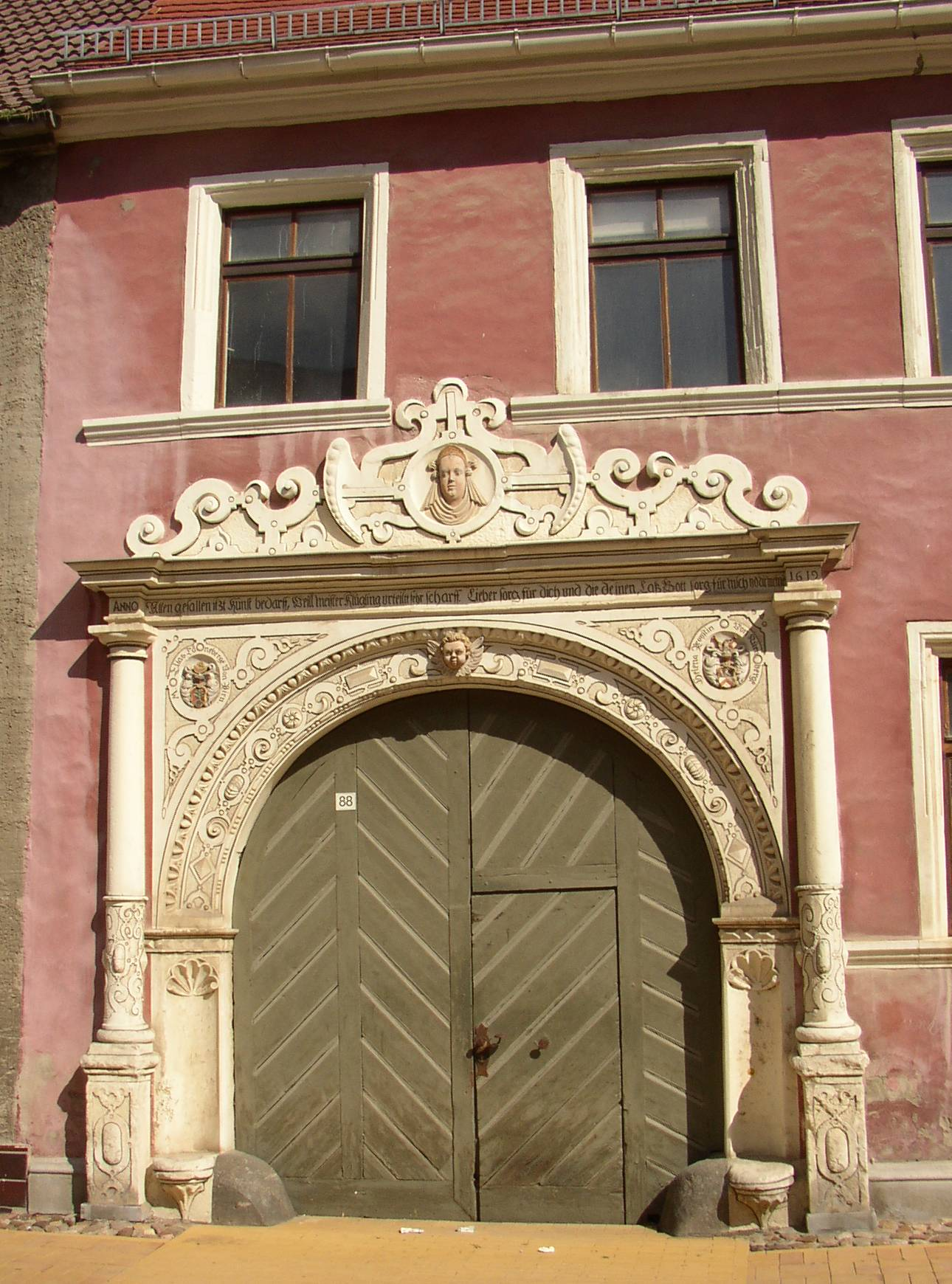 Portal in Bad Schmiedeberg in Saxony-Anhalt, Germany